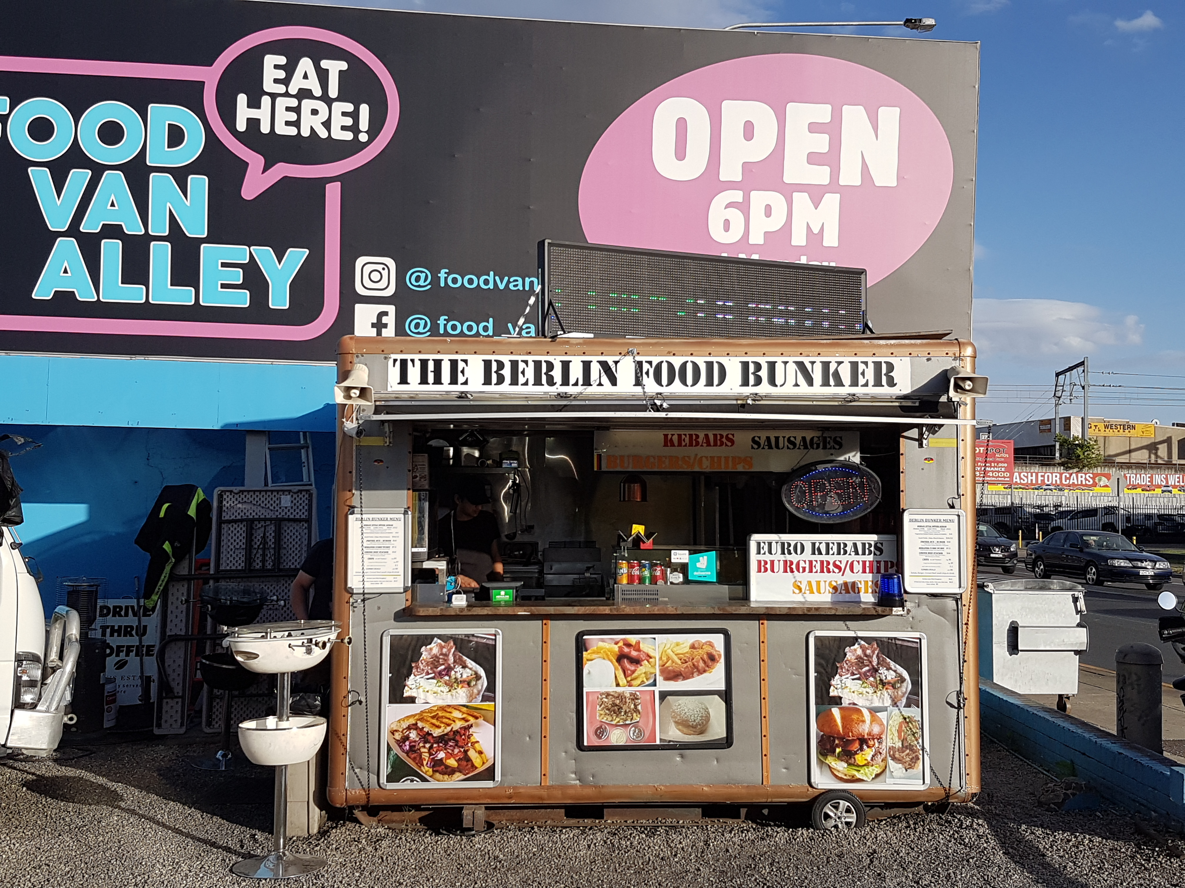 German Food Truck in Parramatta, Sydney, Australia